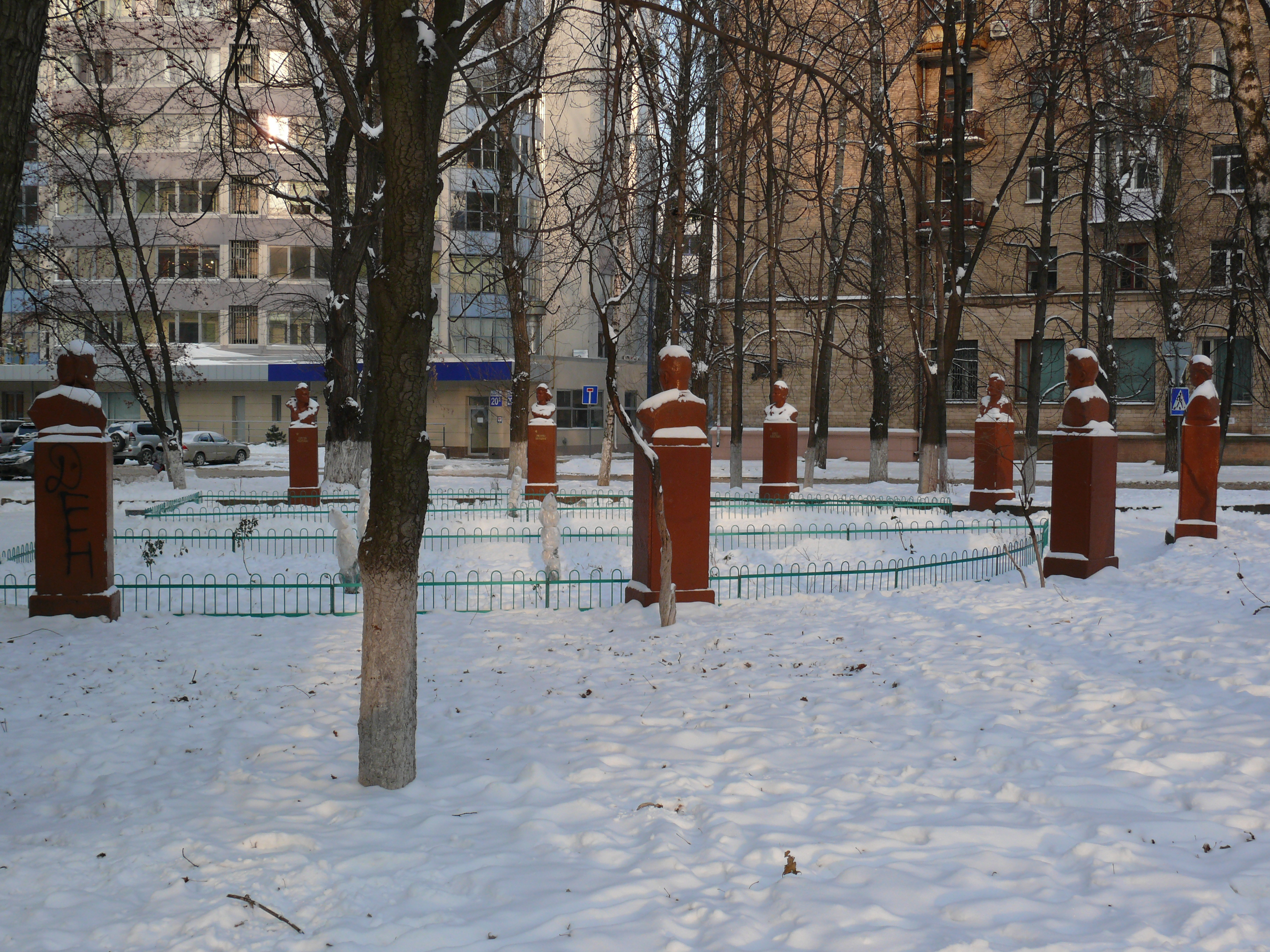 Kharkov. 116 School Komsomol Heroes Alley